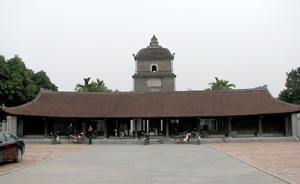 Dau pagoda, the earliest pagoda in Vietnam, 3nd century